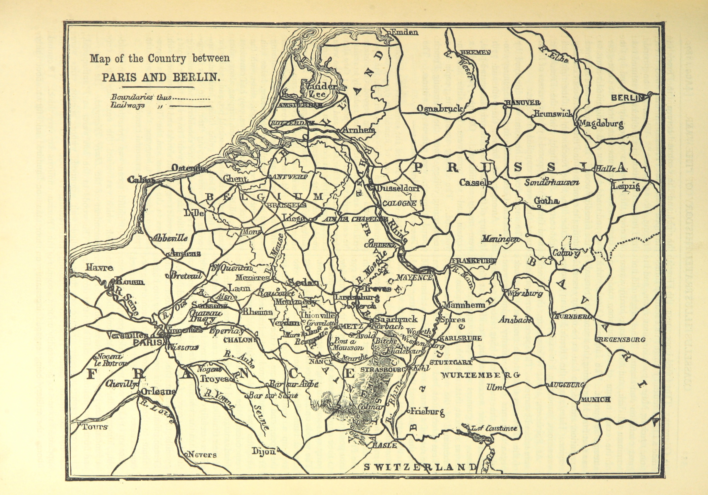 View this map on the BL Georeferencer service. Image taken from: Title: "[Cassell's Illustrated History of the War between France and Germany, 1870-1871.]" Author: OLLIER, Edmund. Shelfmark: "British Library HMNTS 9080.k.3." Volume: 01 Page: 49 Place of Publishing: London Date of Publishing: 1887 Issuance: monographic Identifier: 002706360 Explore: Find this item in the British Library catalogue, 'Explore'. Download the PDF for this book (volume: 01) Image found on book scan 49 (NB not necessarily a page number) Download the OCR-derived text for this volume: (plain text) or (json) Click here to see all the illustrations in this book and click here to browse other illustrations published in books in the same year. Order a higher quality version from here.